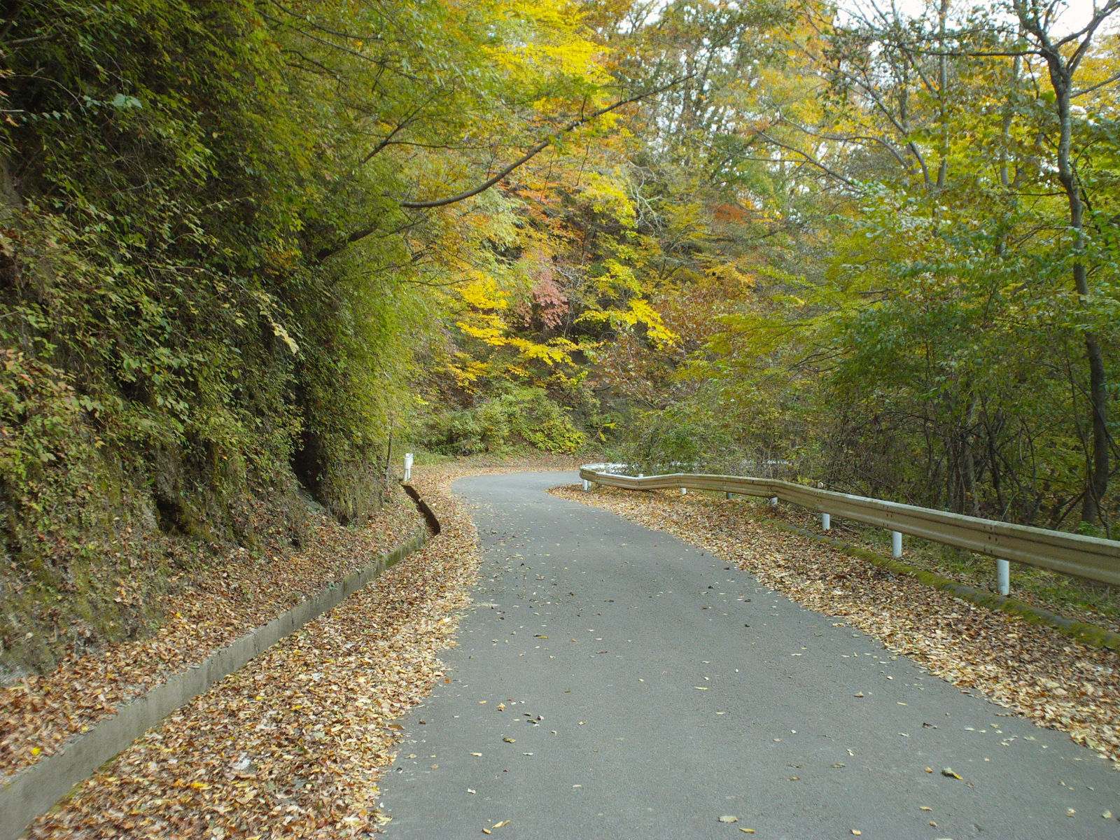 The Yamanashi Prefectural Road Route 212 in Otsuki City